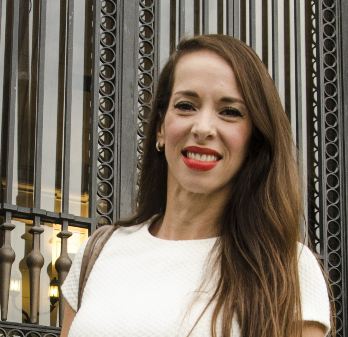 Victoria Onetto at the opening of Kirchner Cultural Center (Buenos Aires, May 21, 2015)